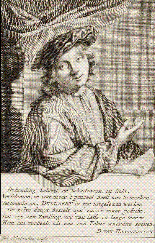 Portrait of Heyman Dullaert